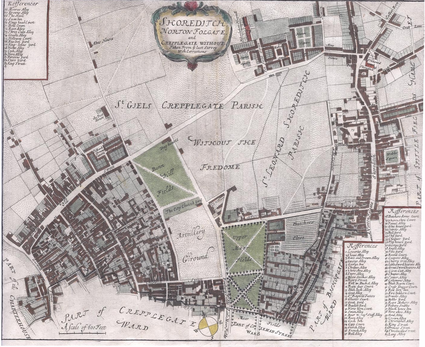 1755 Stow's Map of Shoreditch & Norton Folgate